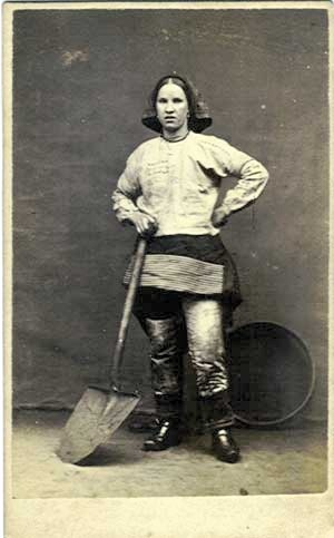 "Pit brow lass" (coal mine surface worker) in Wigan, Greater Manchester.